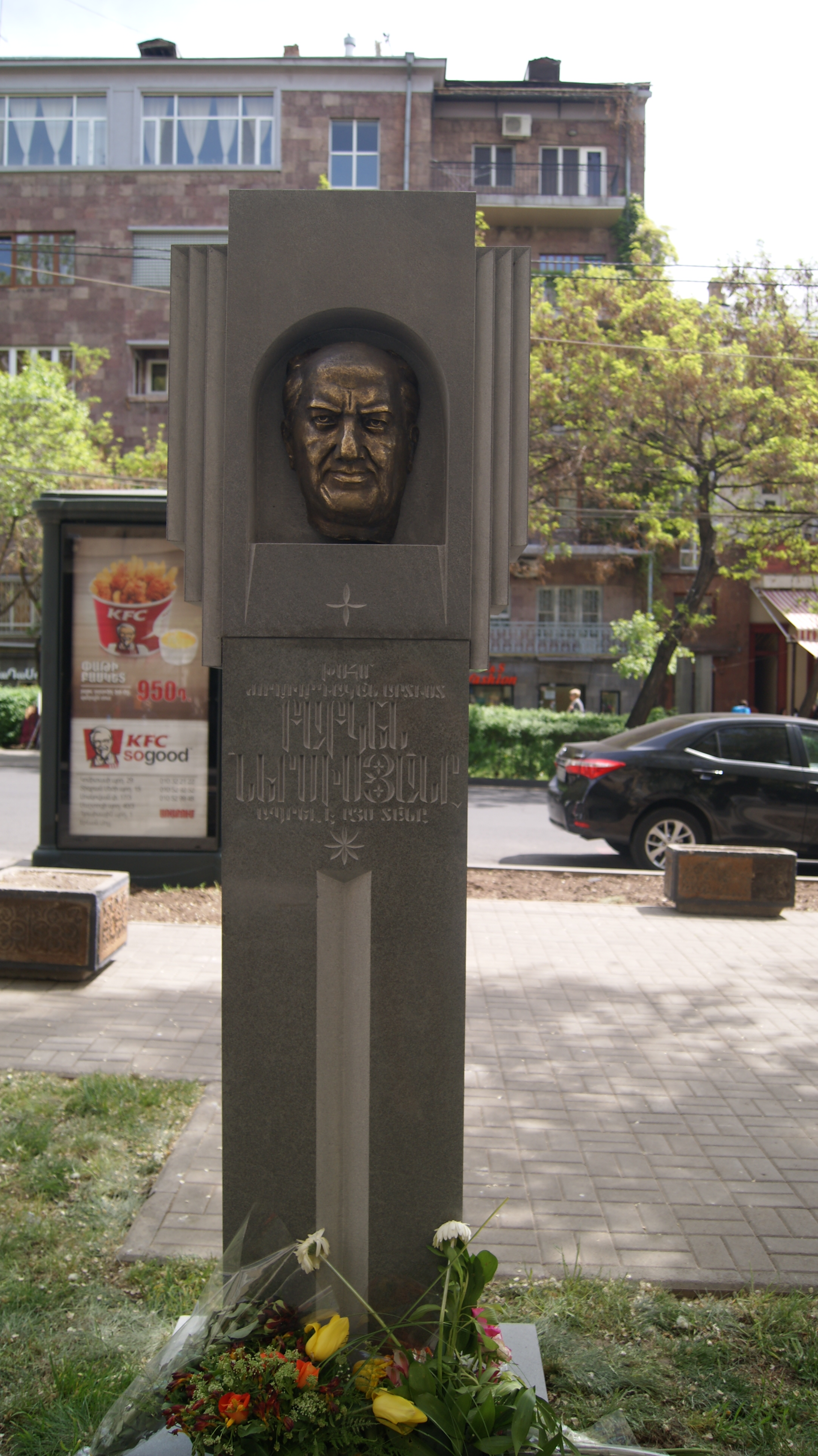 Babken Nersisyan Memorial Pillar on Abovyan 21, Yerevan